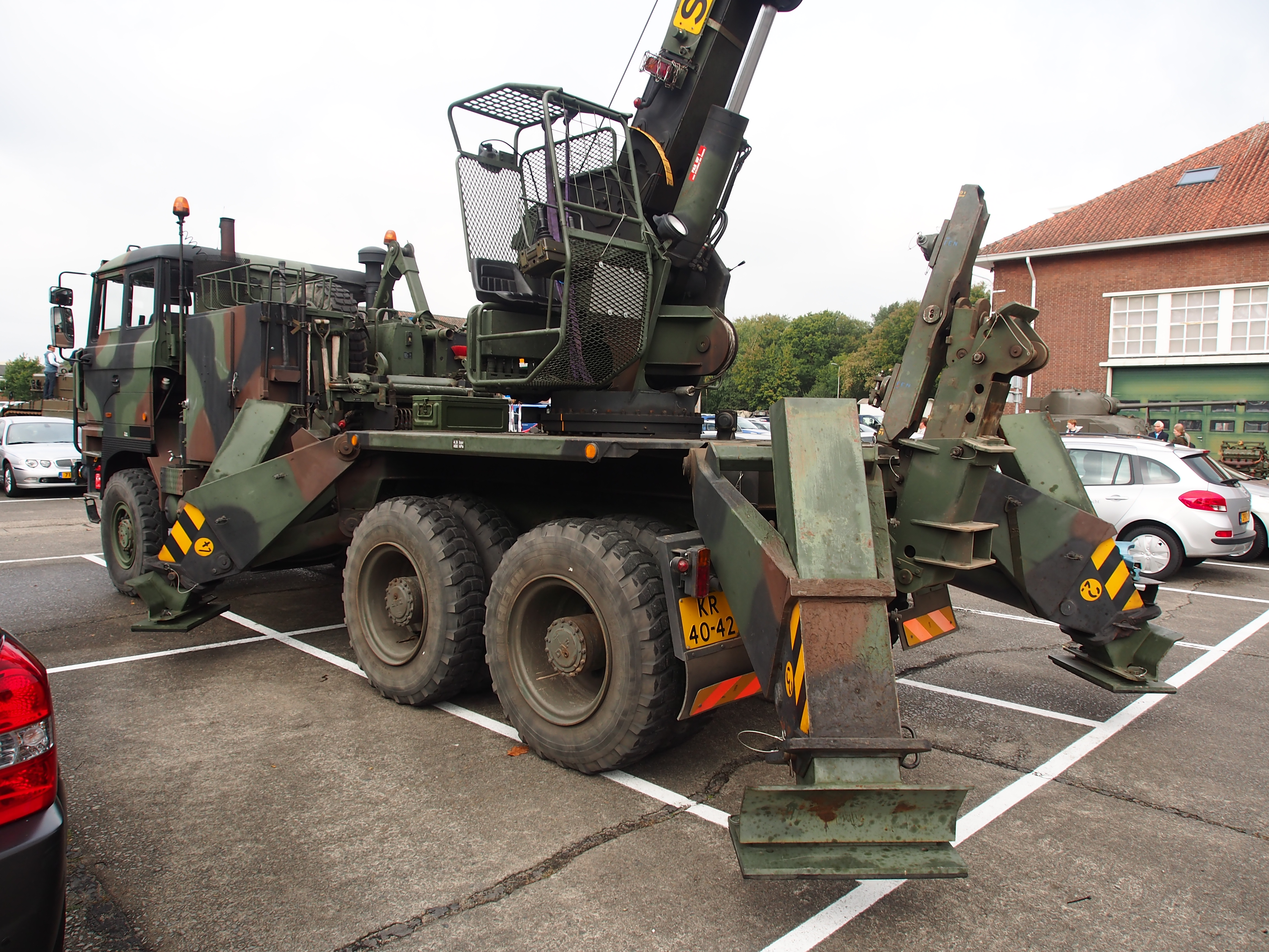 Photographed at the Cavalerie museum, Amersfoort, The Netherlands.